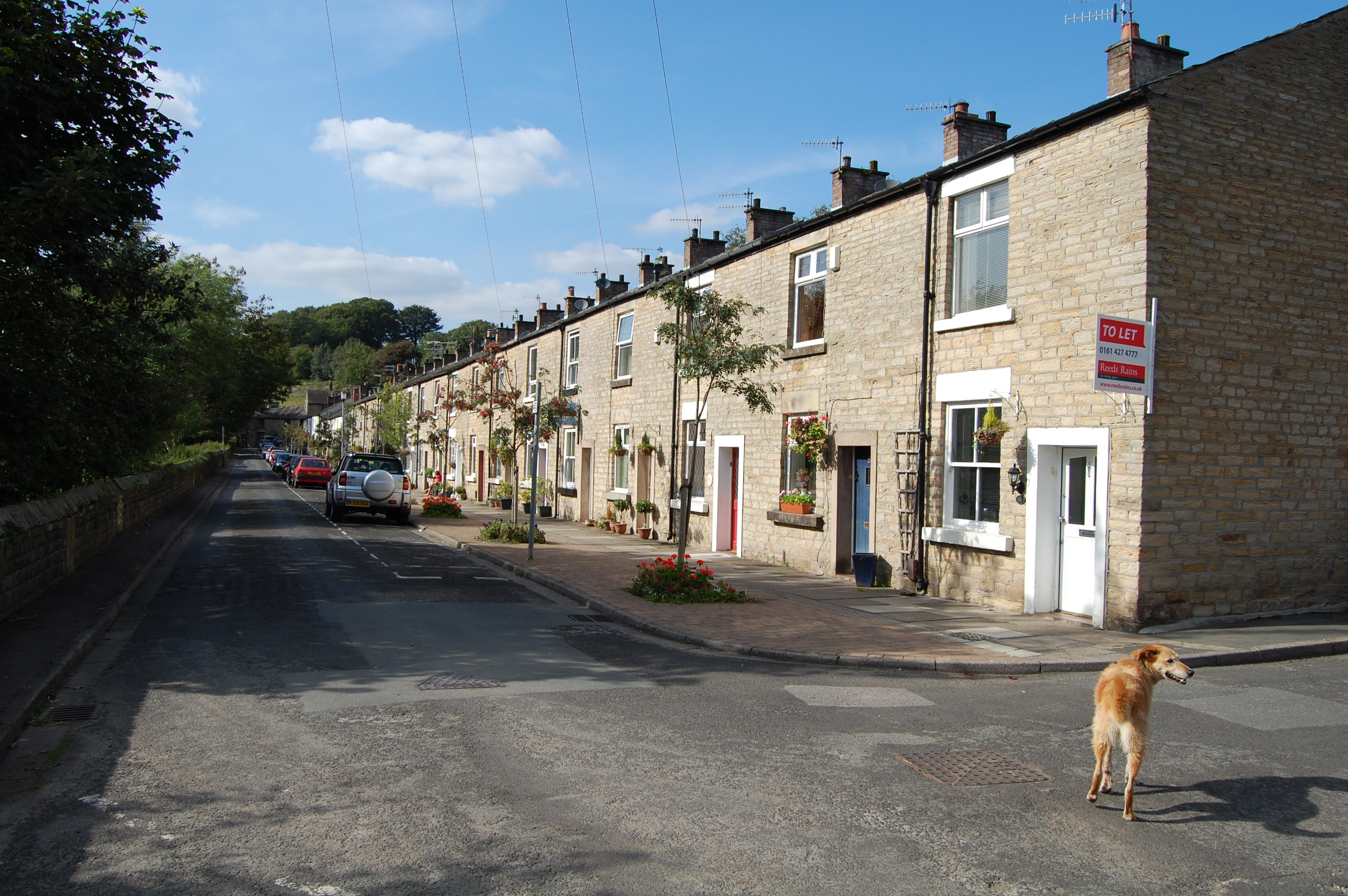 Compstall is a small village within the Metropolitan Borough of Stockport. It was formerly a mill village, built by George Andrew in the 1820s to house his 800 workers. Most of the original mill cottages and other structures remain unchanged.